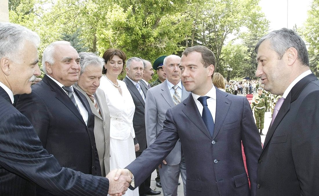 TSKHINVAL. President of South Ossetia Eduard Kokoity introduced members of the republic government to Dmitry Medvedev.